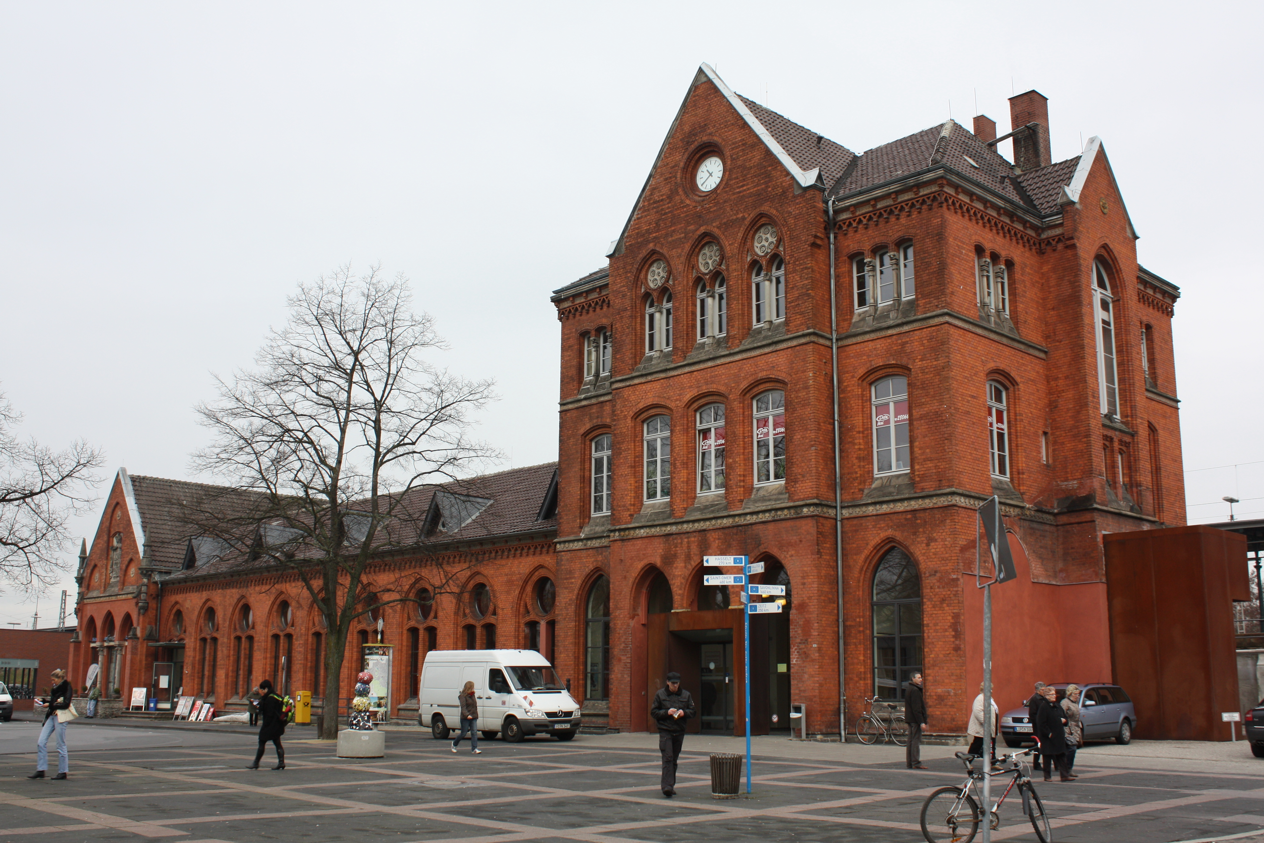 Train station in Detmold, Lippe District, North Rhine-Westphalia, Germany.